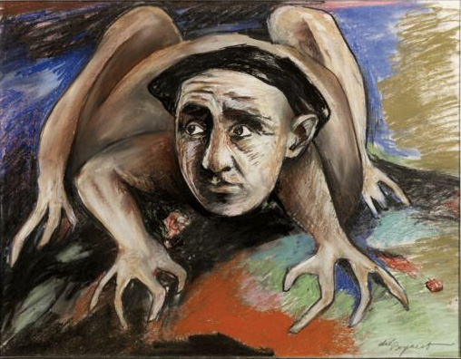 Self portrait as a frog